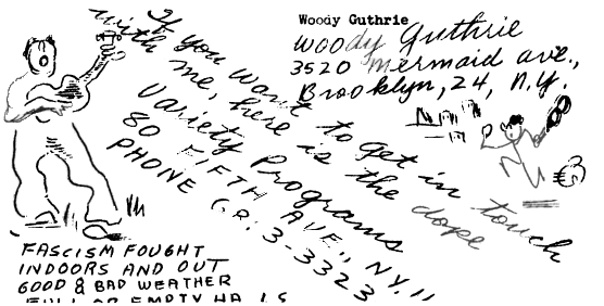 Page from booklet of Woody Guthrie sheet music and lyrics